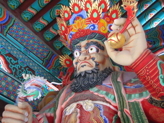 A guard statue in the entrance of a Korean temple.